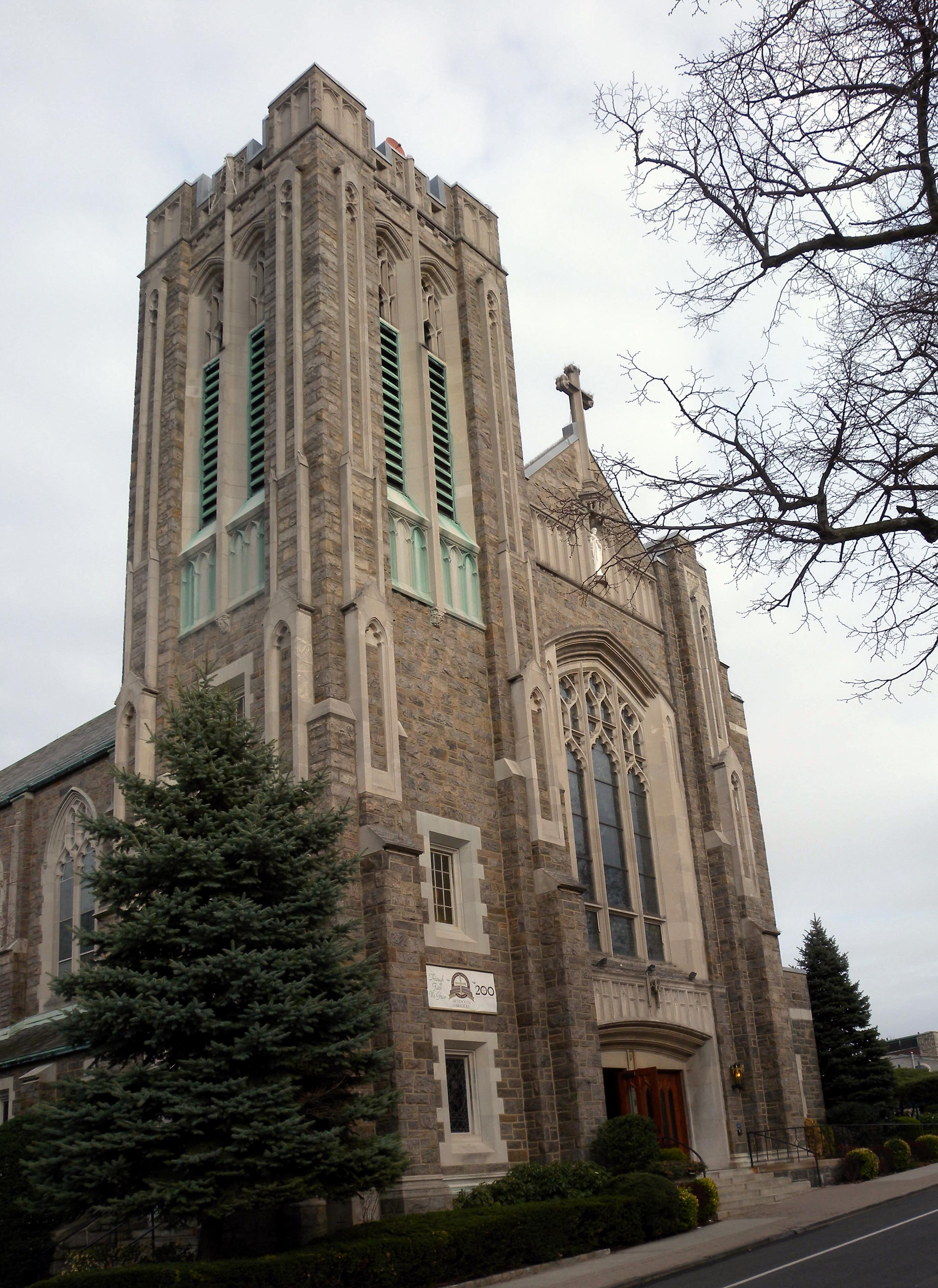 Looking east at St Joseph's Roman Catholic Church in Bronxville on a cloudy afternoon.